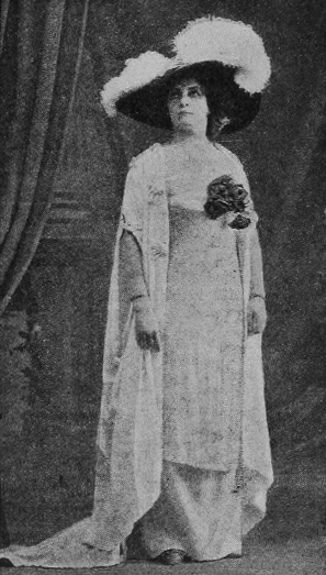 Elena Jordi (Montserrat Casals i Baqué), in La Escena Catalana magazine of 24.9.1910